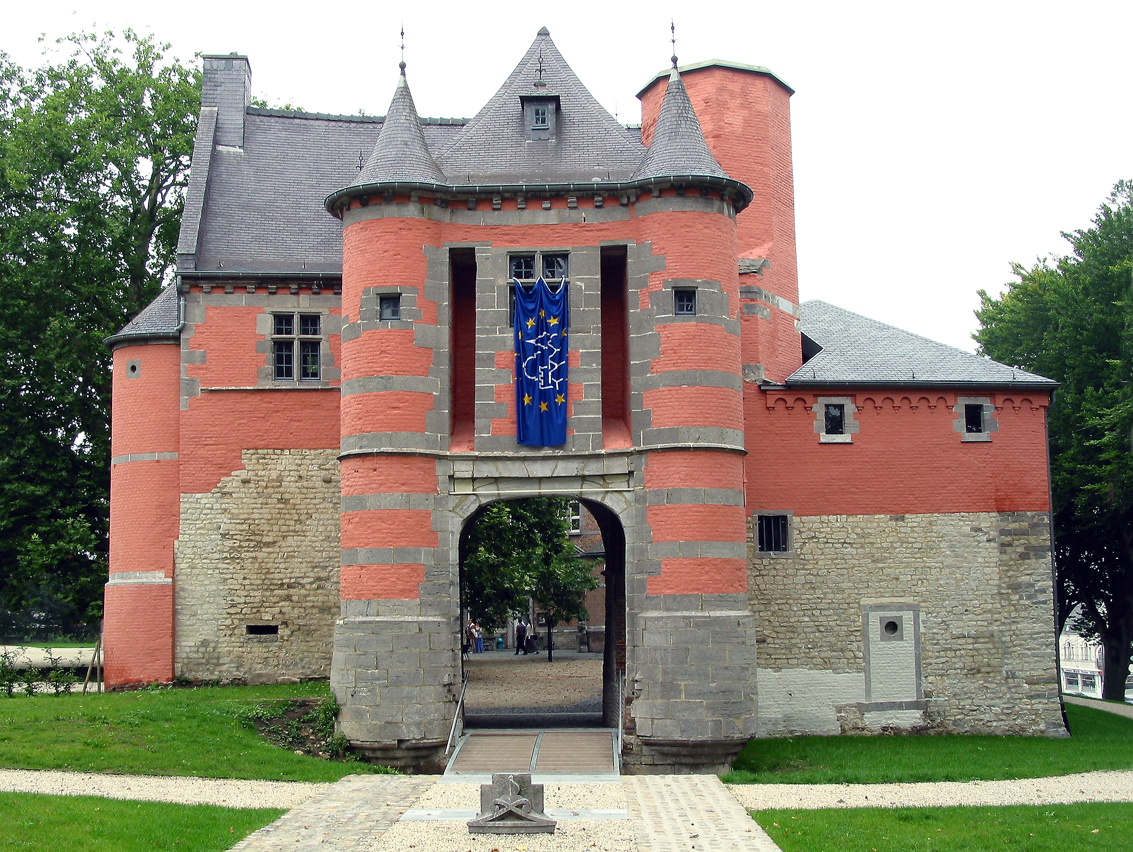 Trazegnies (Belgium), the castle (XI-XVIth century).